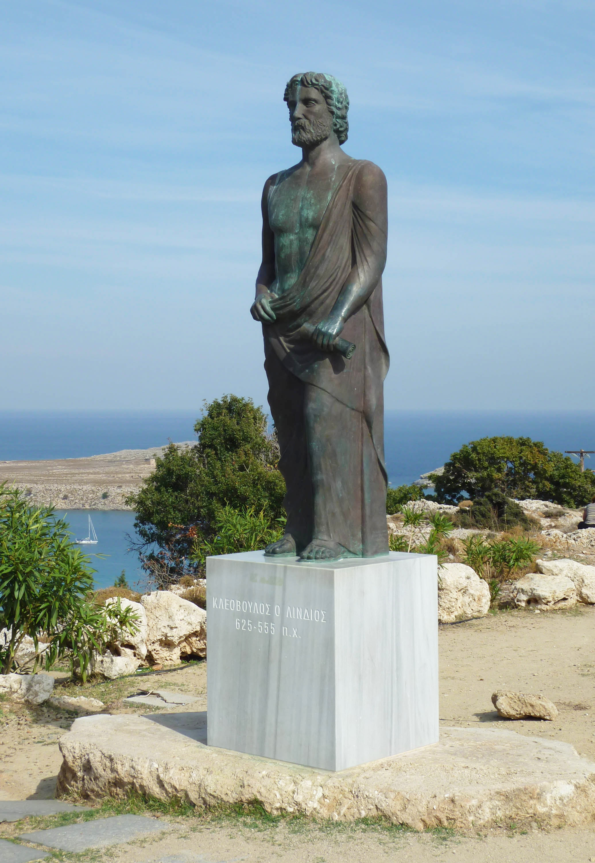 Statue of Cleobulus of Lindos outside of the city of Lindos, Rhodes, Greece